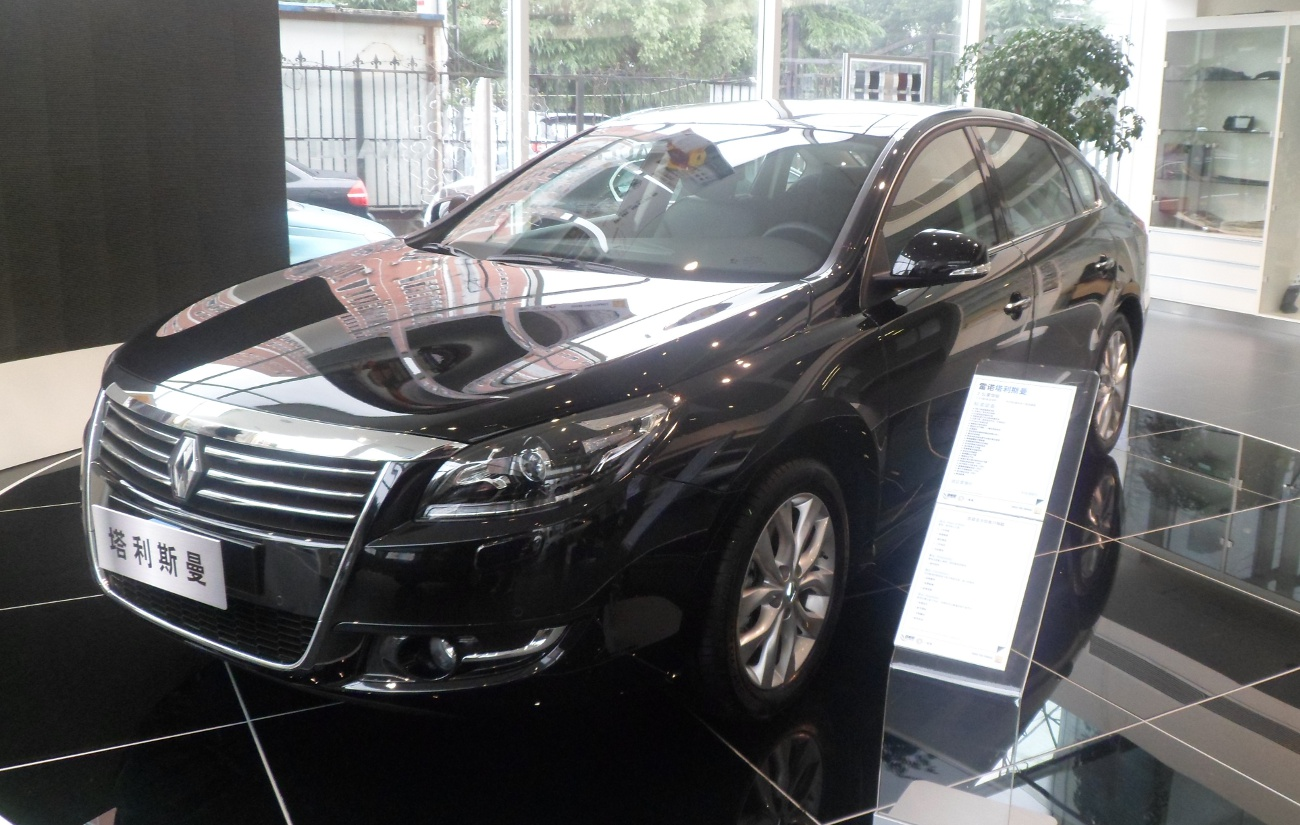 Renault Talisman photographed in Shanghai, China.